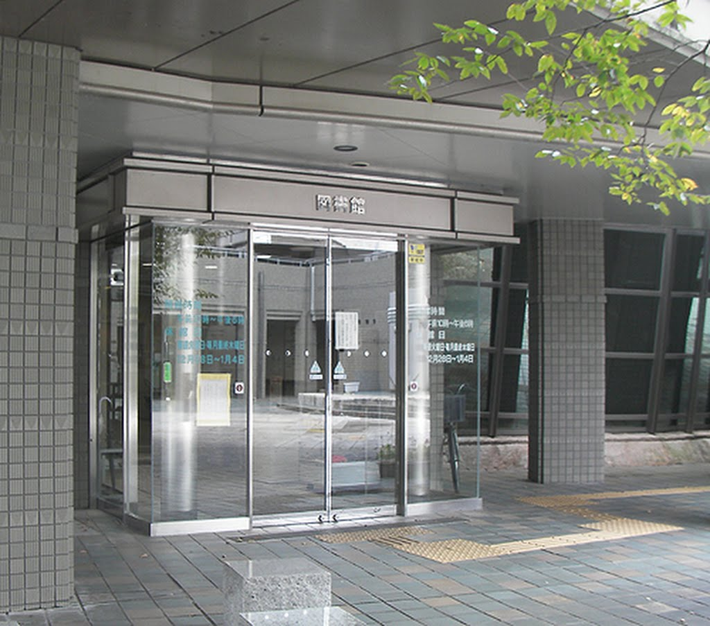 This is the Tsu city Ano Library in Tsu city, Mie, Japan.